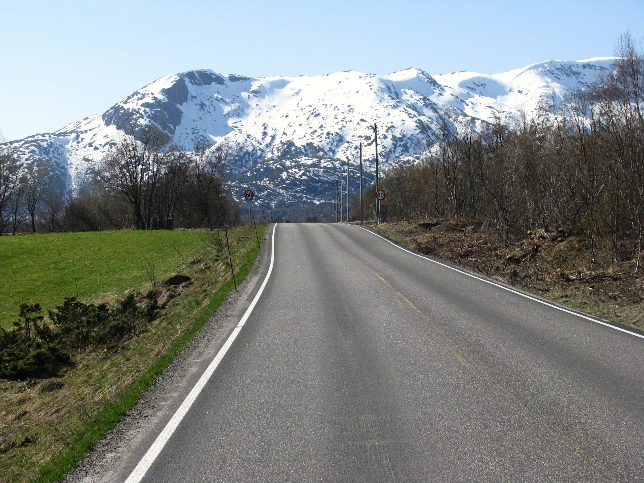 Driving the E10 road on Hinnøya island, well north of the Arctic Circle. 10. May 2011. Lødingen municipality, Nordland, Norway.